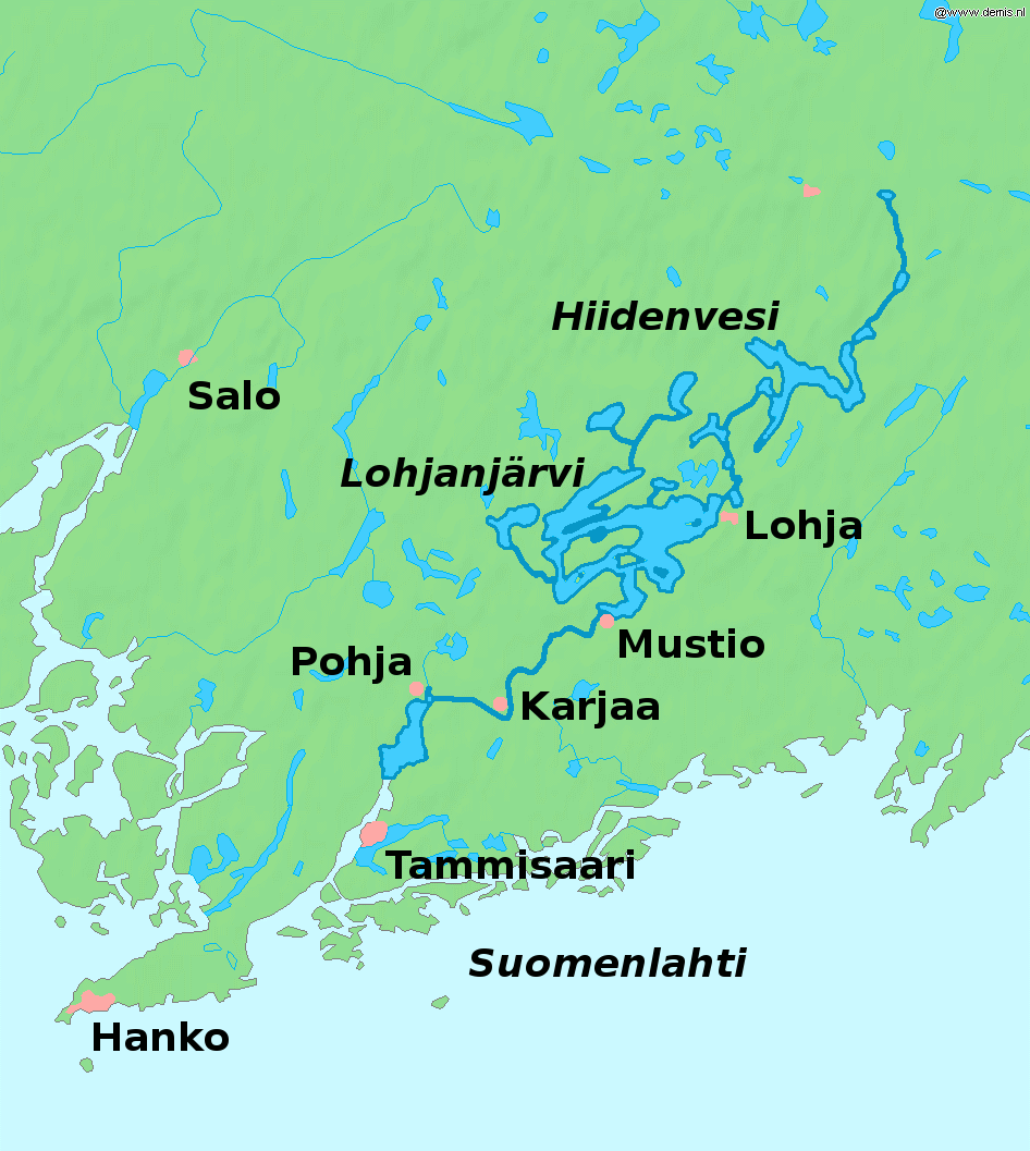 Map of Karjaanjoki river, southern Finland. Names in Finnish.